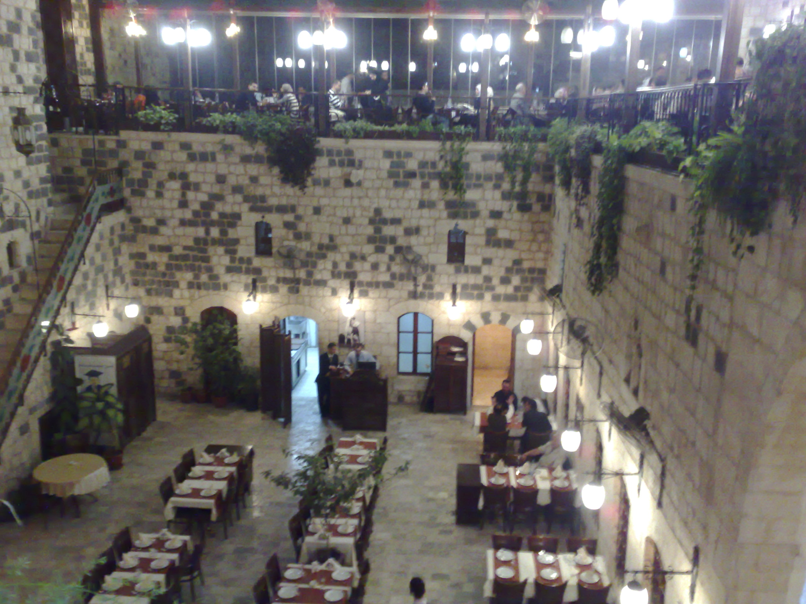 A restaurant in an old house in Hama.